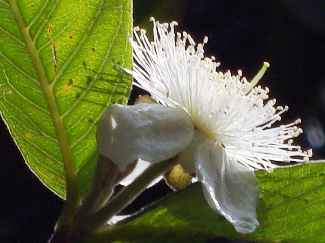 guava flower